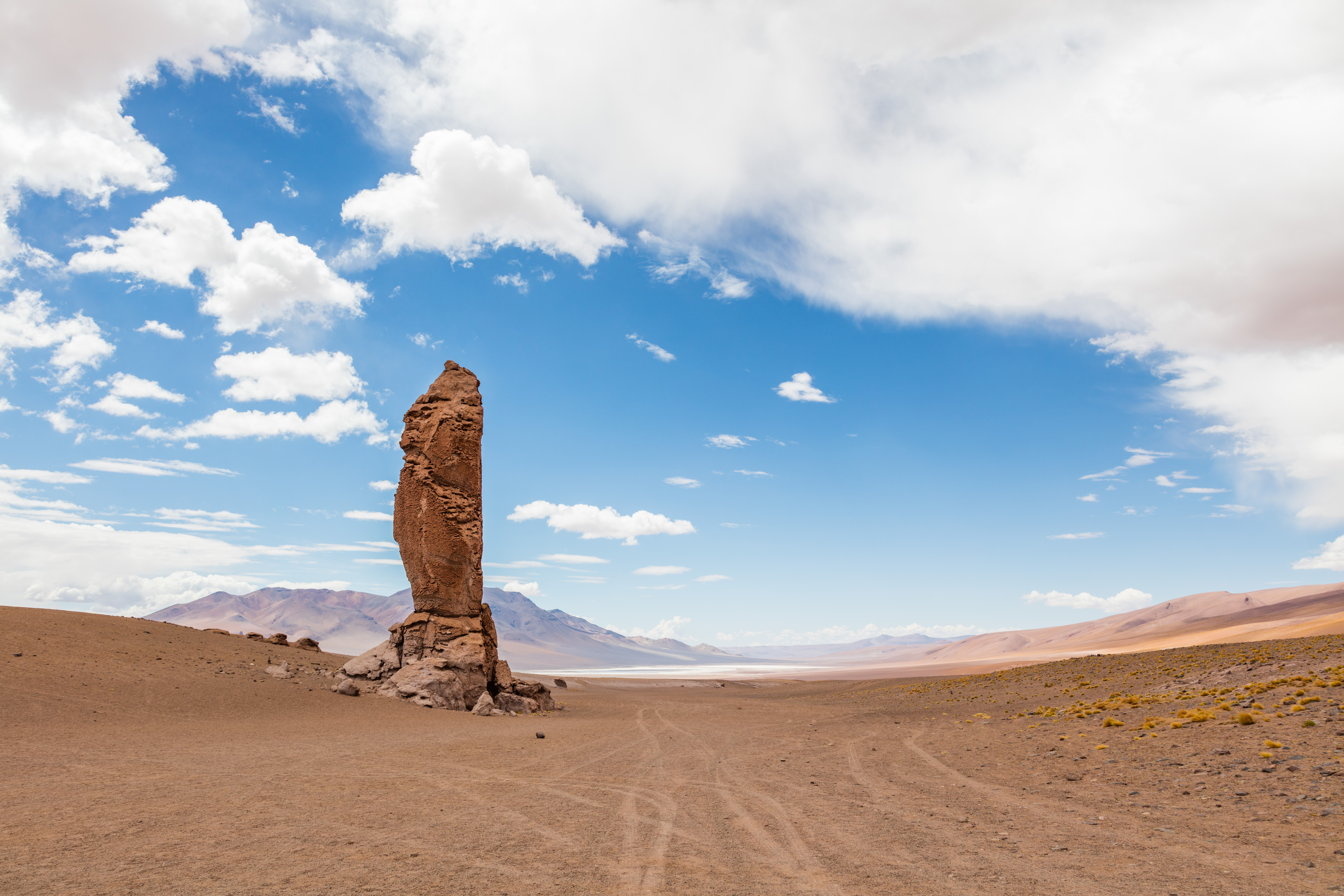 View of one of the "Monks of the Pacana", huge rock formations created by the erosion of the wind and located near the Salar de Aguas Calientes, Los Flamencos National Reserve, northern Chile.